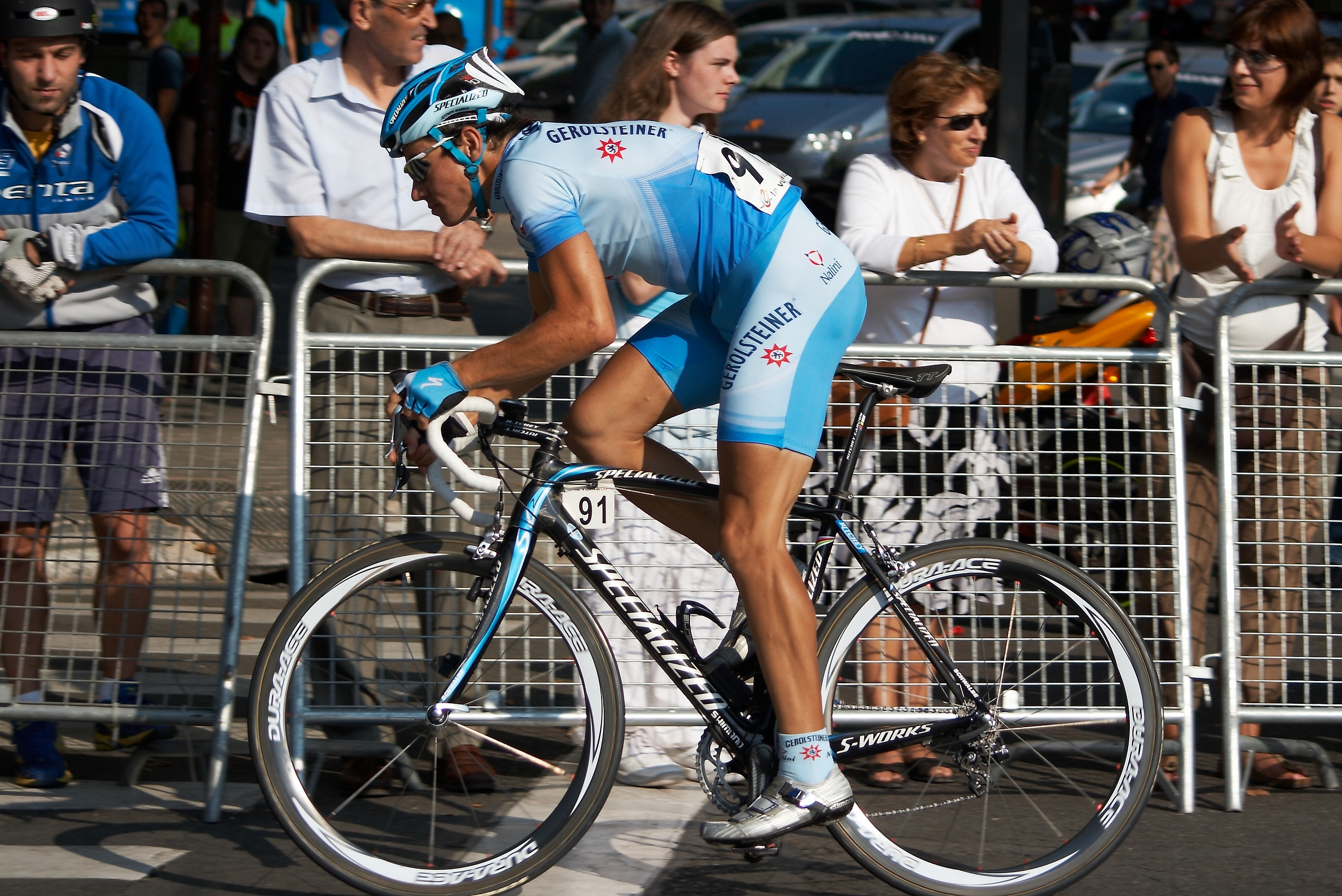 Markus Fothen, 2007 Vuelta a España, Madrid, Spain.